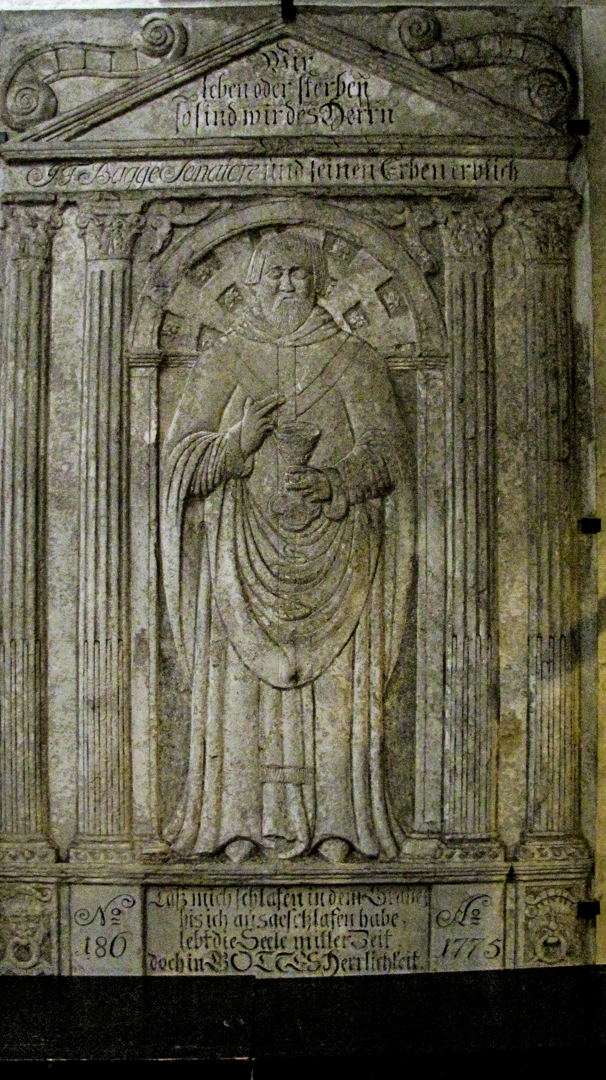 Ledger stone of Dean Andreas Angerstein (+ 1570), later re-used for Senator Johann Friedrich Bagge (+ 1784) in Lübeck cathedral